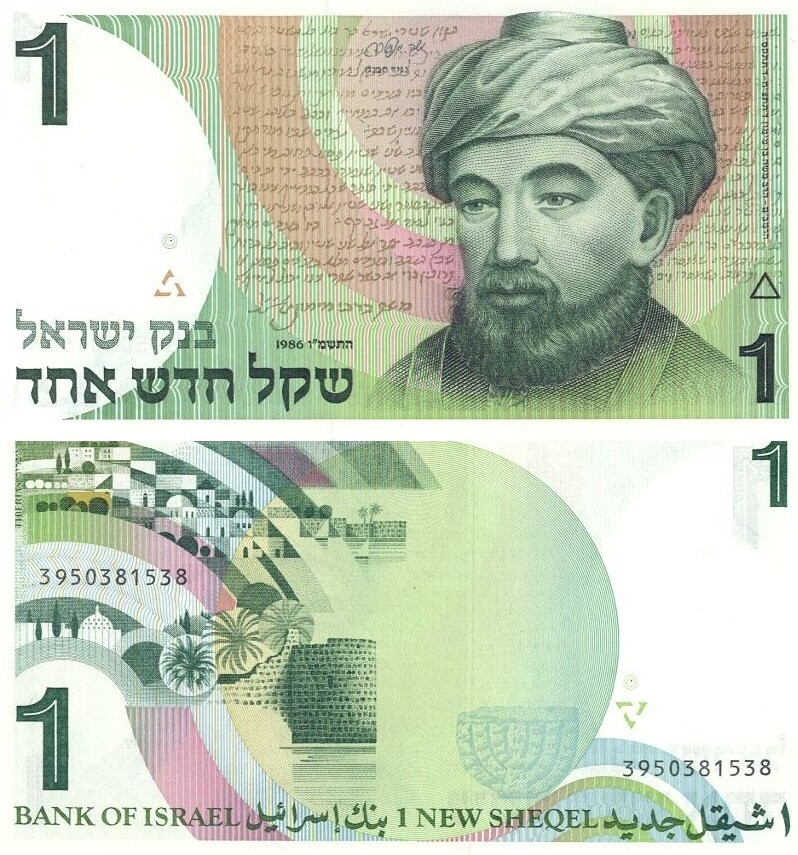 Obverse & Reverse side of a 1 sheqel bill, paper.